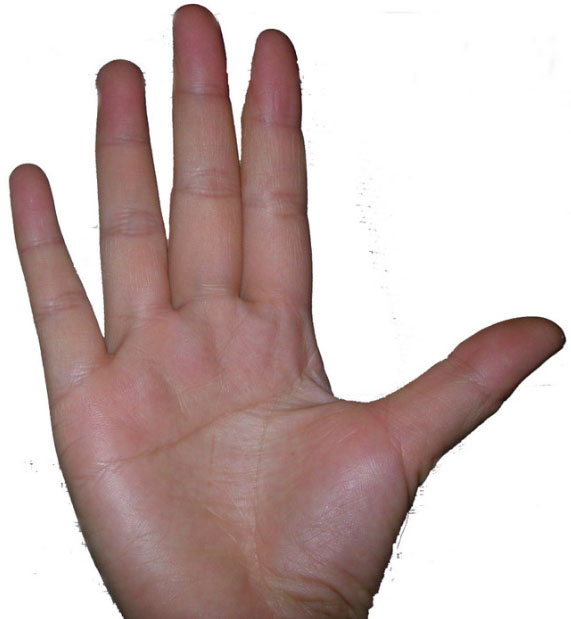 transversal palmprint